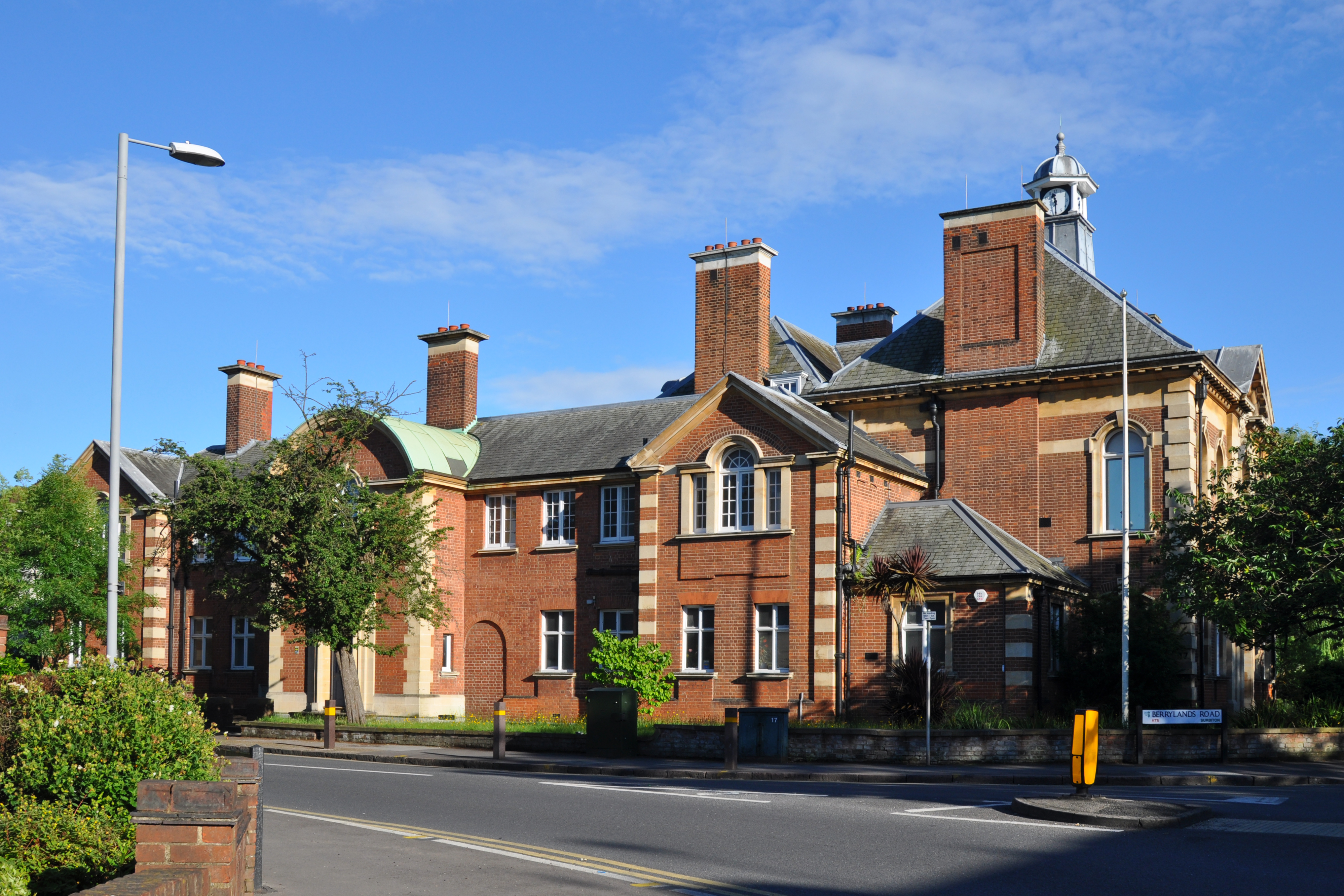 Sessions House Wikidata has entry Q26640846 with data related to this item.